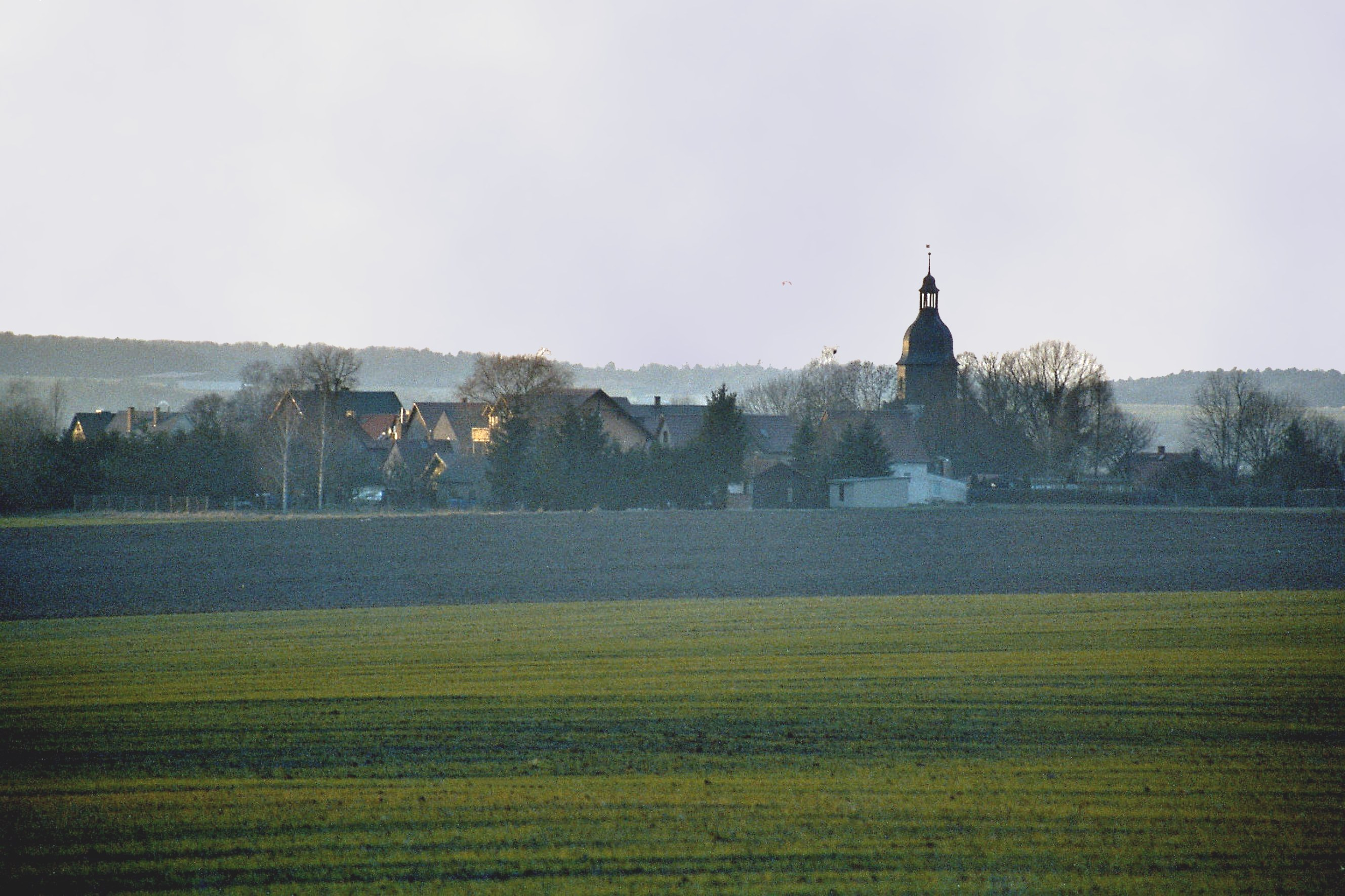 View from village Bobeck to village Albersdorf